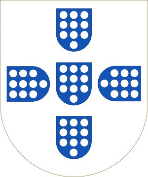 Shield of the Kingdom of Portugal after D. Afonso I, 1st King of Portugal